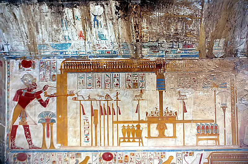 Chapel of Osiris, King censing before shrine containing Osiris emblem, Temple of Seti I, Abydos, Egypt